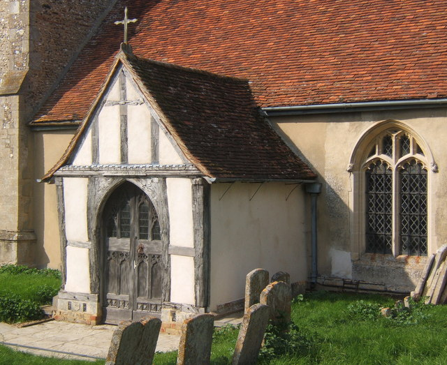 Alpheton church porch